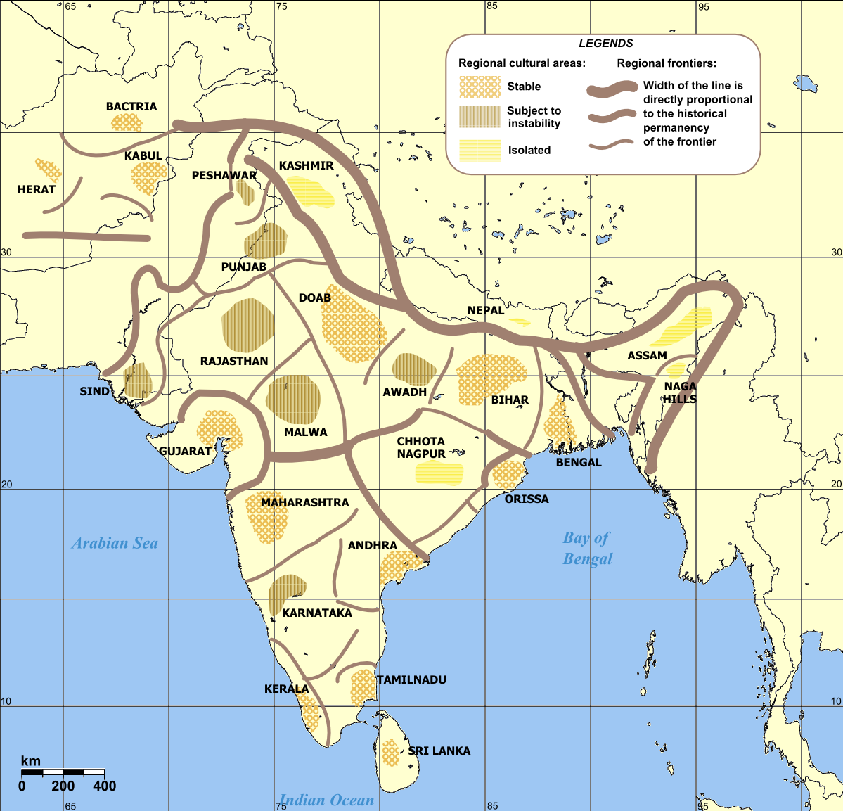 Map of Indian subcontinent illustrating stability and historical permanency of the regional cultural frontiers and areas. This map is based on Map 1.3 "Regional Frontiers and Culture Areas" in Karl J. Schmidt (2015) An Atlas and Survey of South Asian History, Routledge, pp. 5 ISBN: 978-1-317-47681-8. An adaptation of this map appears as Map 0.4 "The historical regions" in Michael Mann (2014) South Asia’s Modern History: Thematic Perspectives, Taylor & Francis, pp. 23 ISBN: 978-1-317-62445-5. . Mann's version depicts two stable areas each in Maharashtra and Tamil Nadu, enlarges the unstable area in Karnataka, and has other minor changes.